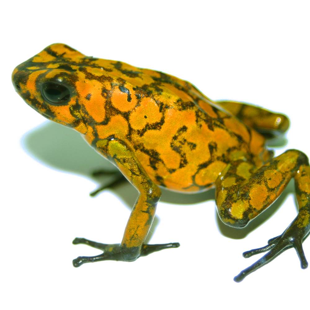 An adult male of Dendrobates sylvaticus (syn. Oophaga sylvatica) - commonly known as the "rana diablito" or the "little devil frog".